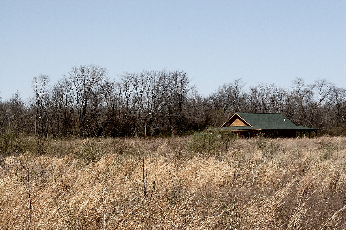 Rock Springs nature center, O'Fallon, Illinois, 2006.